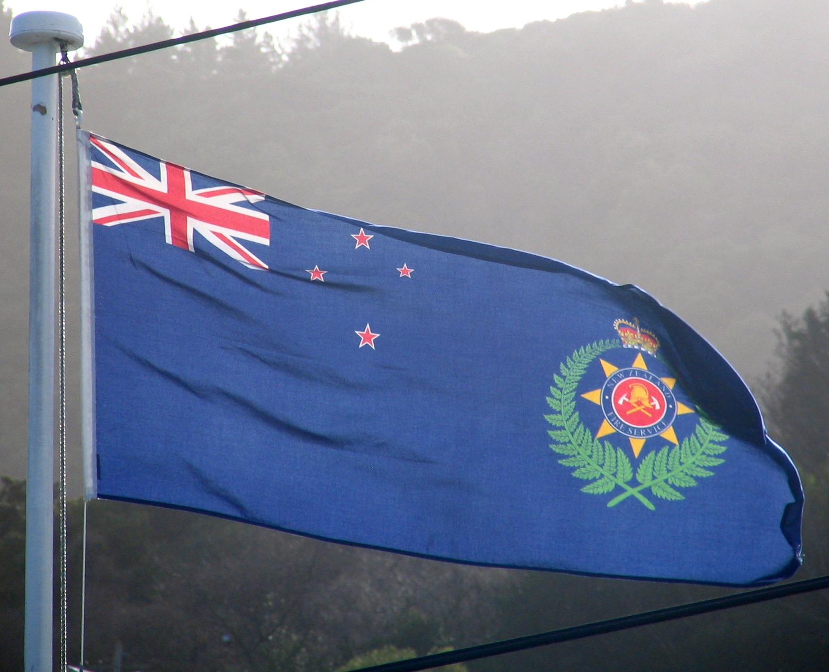 Flag of the New Zealand Fire Service, flying from the Ravensbourne fire station, Dunedin, New Zealand.